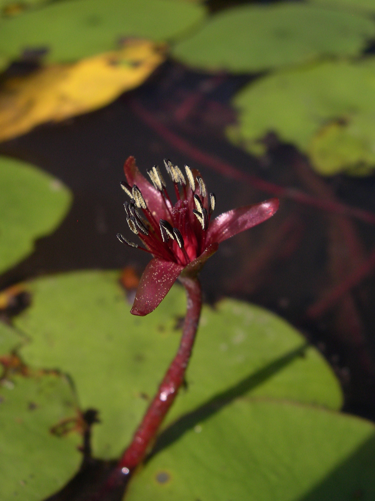 Brasenia schreberi photographed in Belize 2006